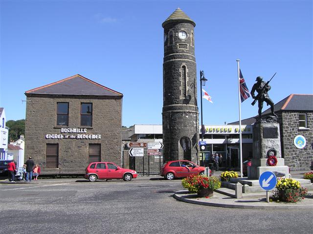 Bushmills town centre Looking east